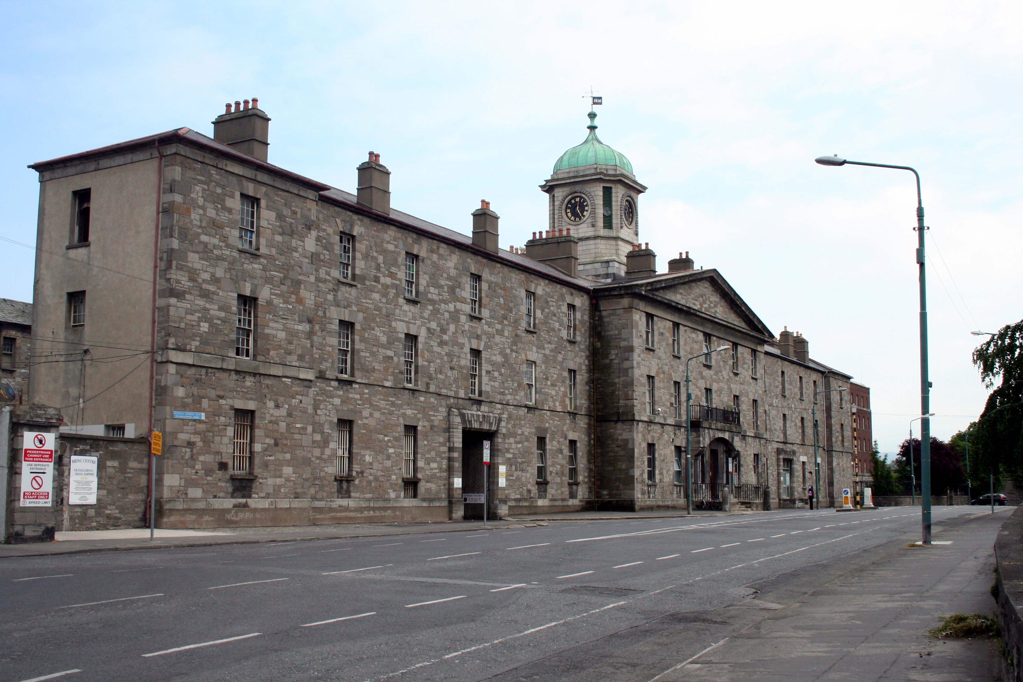 The former Richmond General Penitentiary, later part of St. Brendan's Psychiatric Hospital.